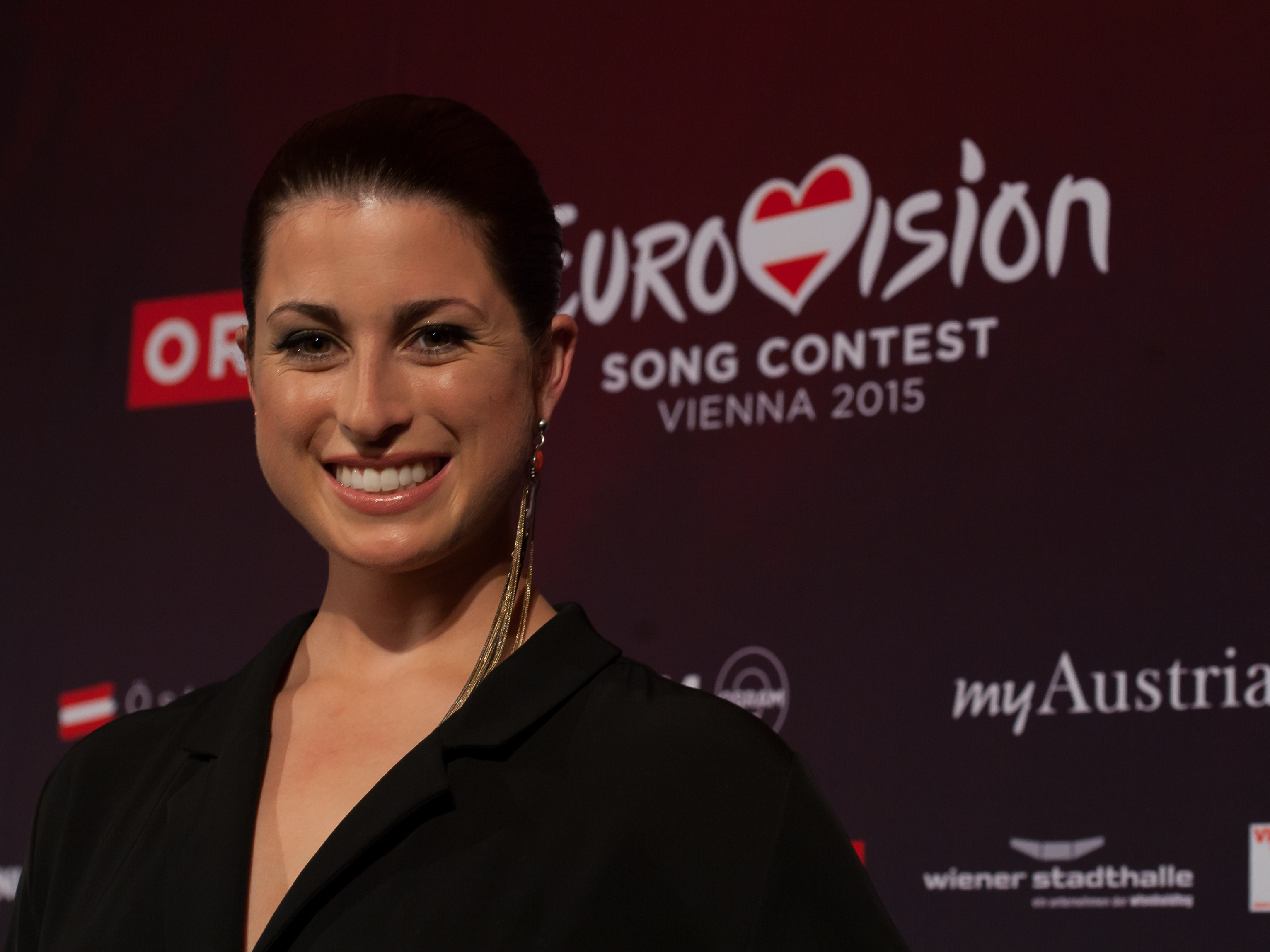 Eurovision Song Contest Vienna 2015: Ann Sophie